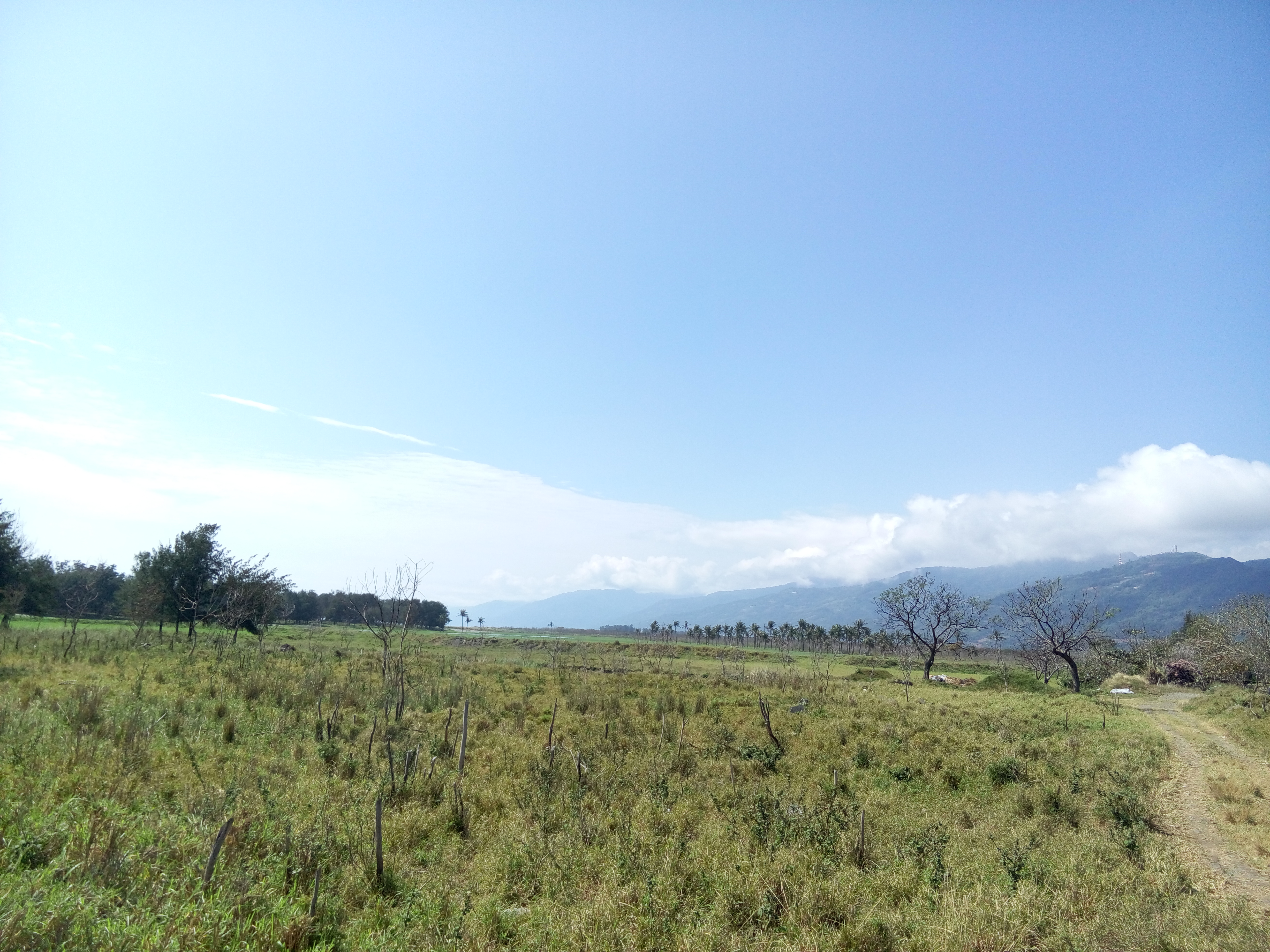 Taiwan(R.O.C)Taitung County Taiting City Chihben wetlands